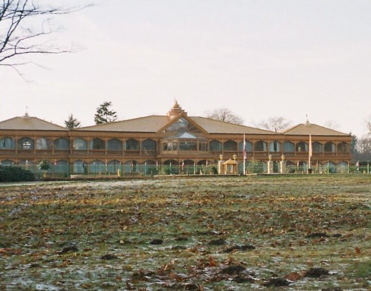 Maharishi Vedic University in Vlodrop, The Netherlands